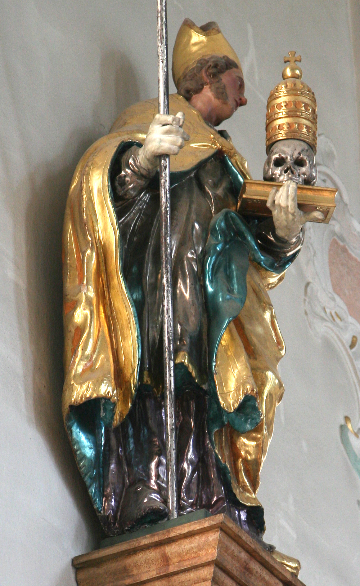 Saint Gebhard (of Bregenz, Bishop of Constance c. 900) with a bible, skull and tiara (papal crown), sculpture of wood, from S. Gall's, Bregenz's Catholic parish church